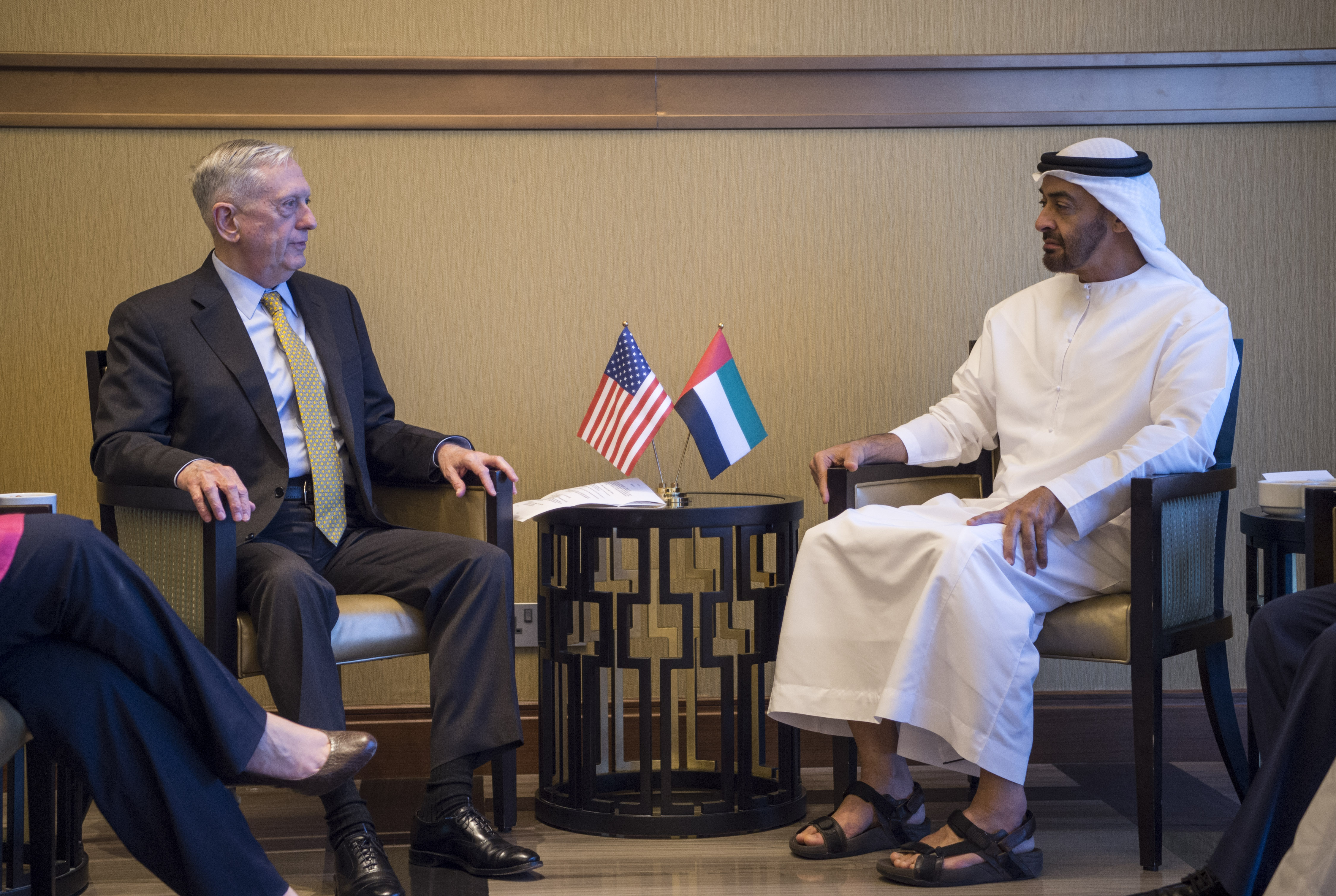 Secretary of Defense Jim Mattis meets with the United Arab Emirates' Crown Prince Mohammed bin Zayed bin Sultan Al Nahyan in Abu Dhabi, UAE, Feb. 18, 2017. (DOD photo by U.S. Air Force Tech. Sgt. Brigitte N. Brantley)